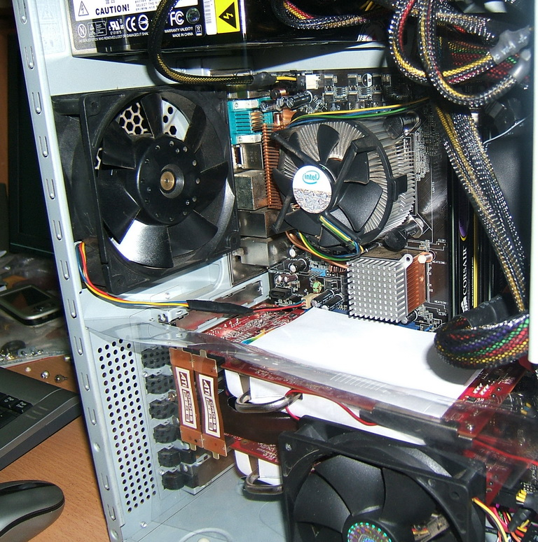 Computer fan and case